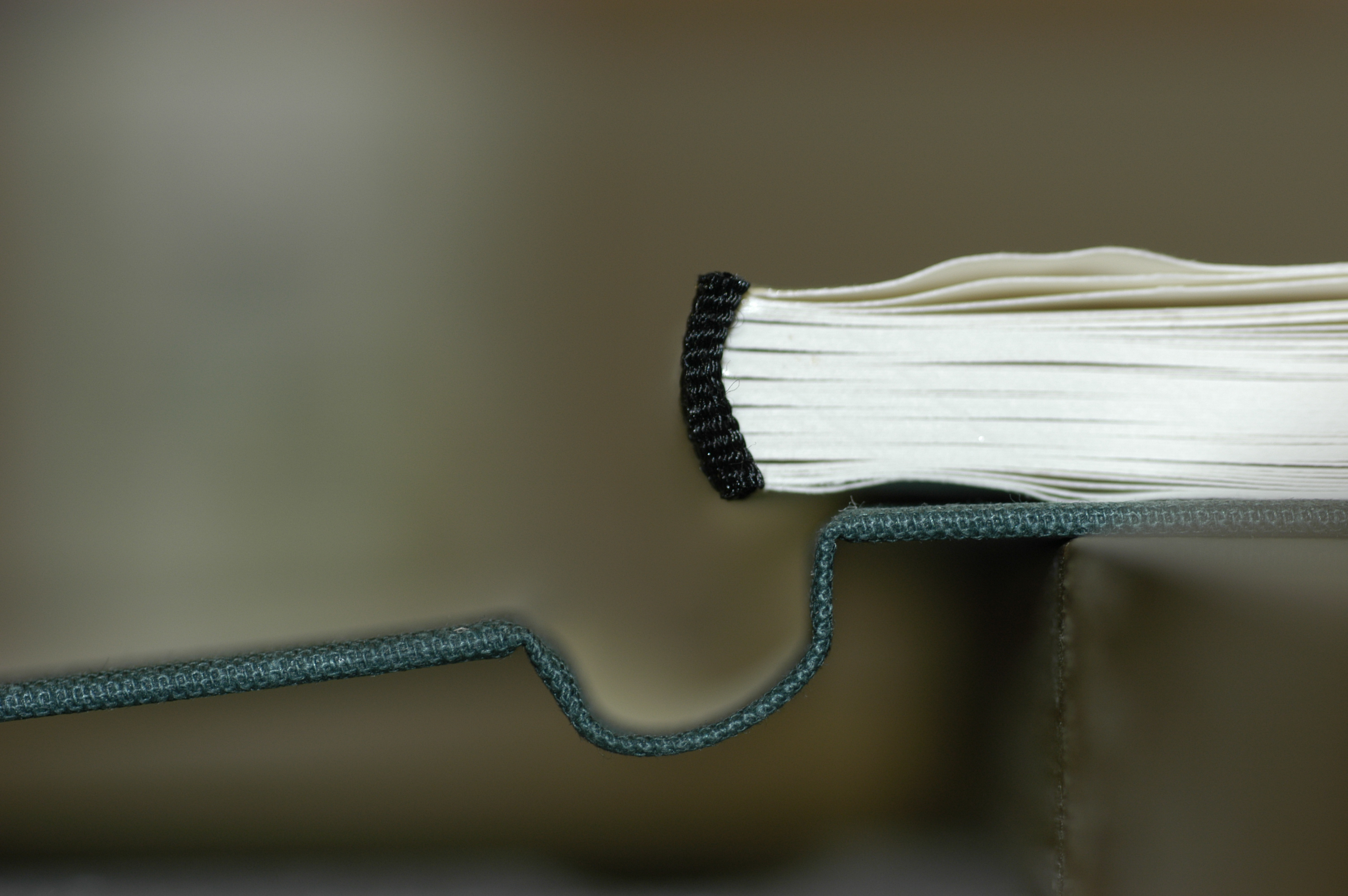 Front cover and Textblock (book binding)